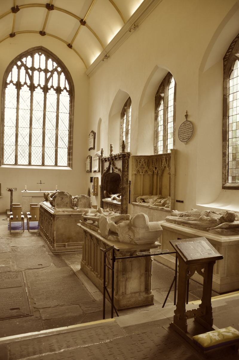 Priory Church of St Mary, Abergavenny